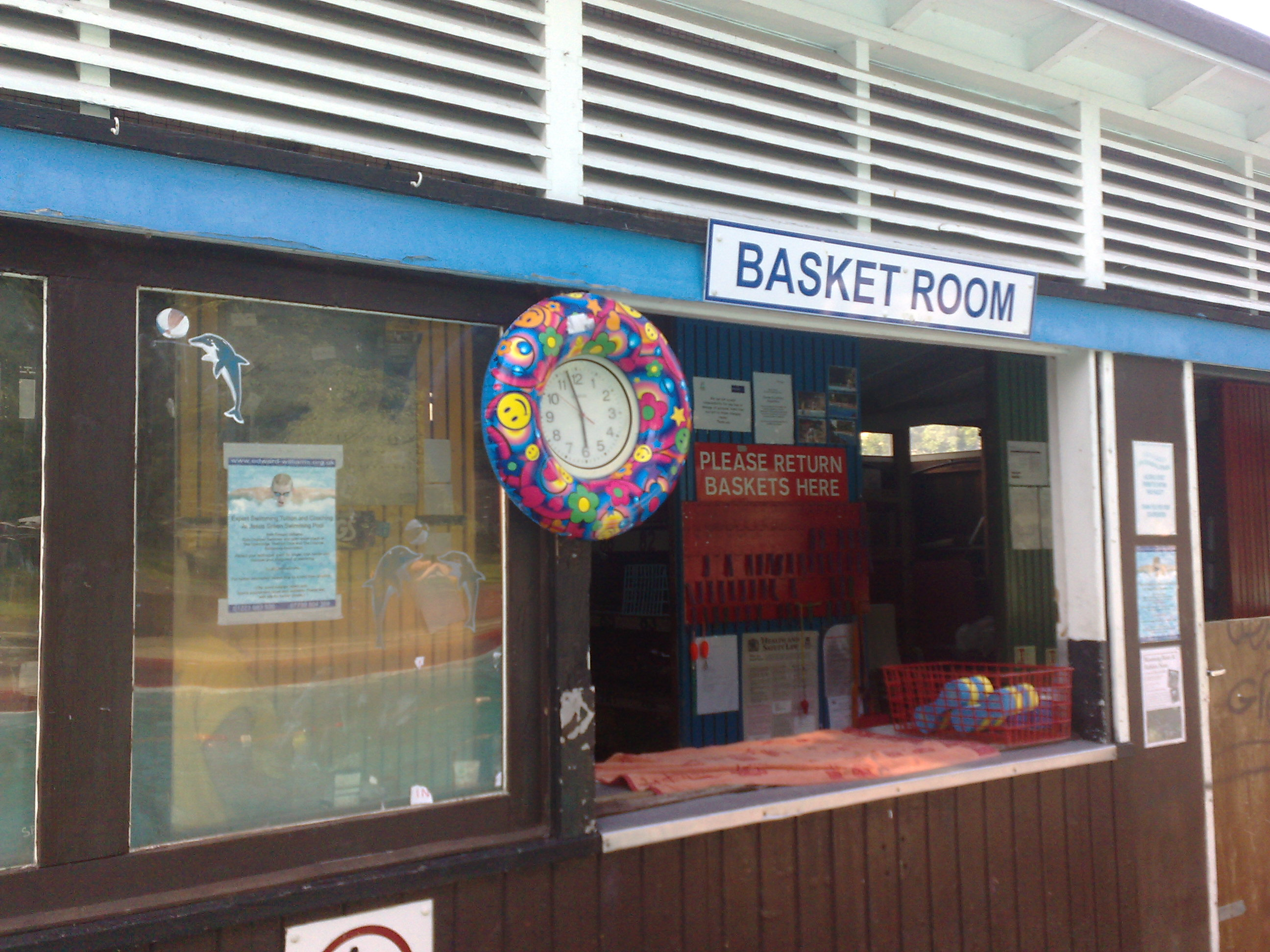 The innovative basket room